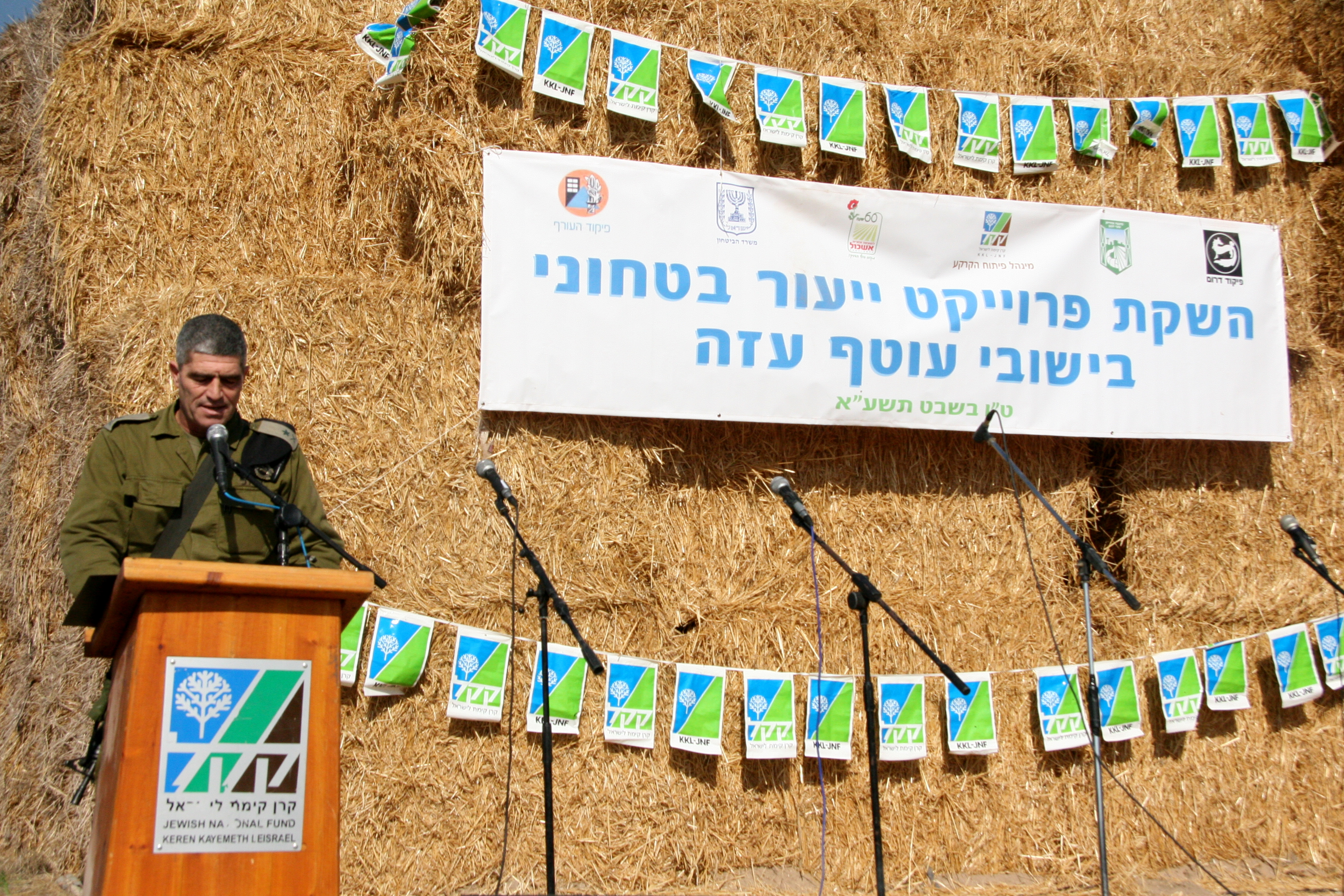 January 20, 2011. OC Southern Command, Maj. Gen. Tal Russo, at the ceremony which launched the Strategic Security Forestation Project. From Maj. Gen. Russo's speech: “For me this is the completion of a cycle. I was born into the strategic security forestation in the Hula Valley, which was then used to defend from Syrian shelling... The project launched today expresses the brave connection to the communities surrounding Gaza, and allows us to upgrade our mission of defending the southern communities with environmental benefits." For more details, see our blog.